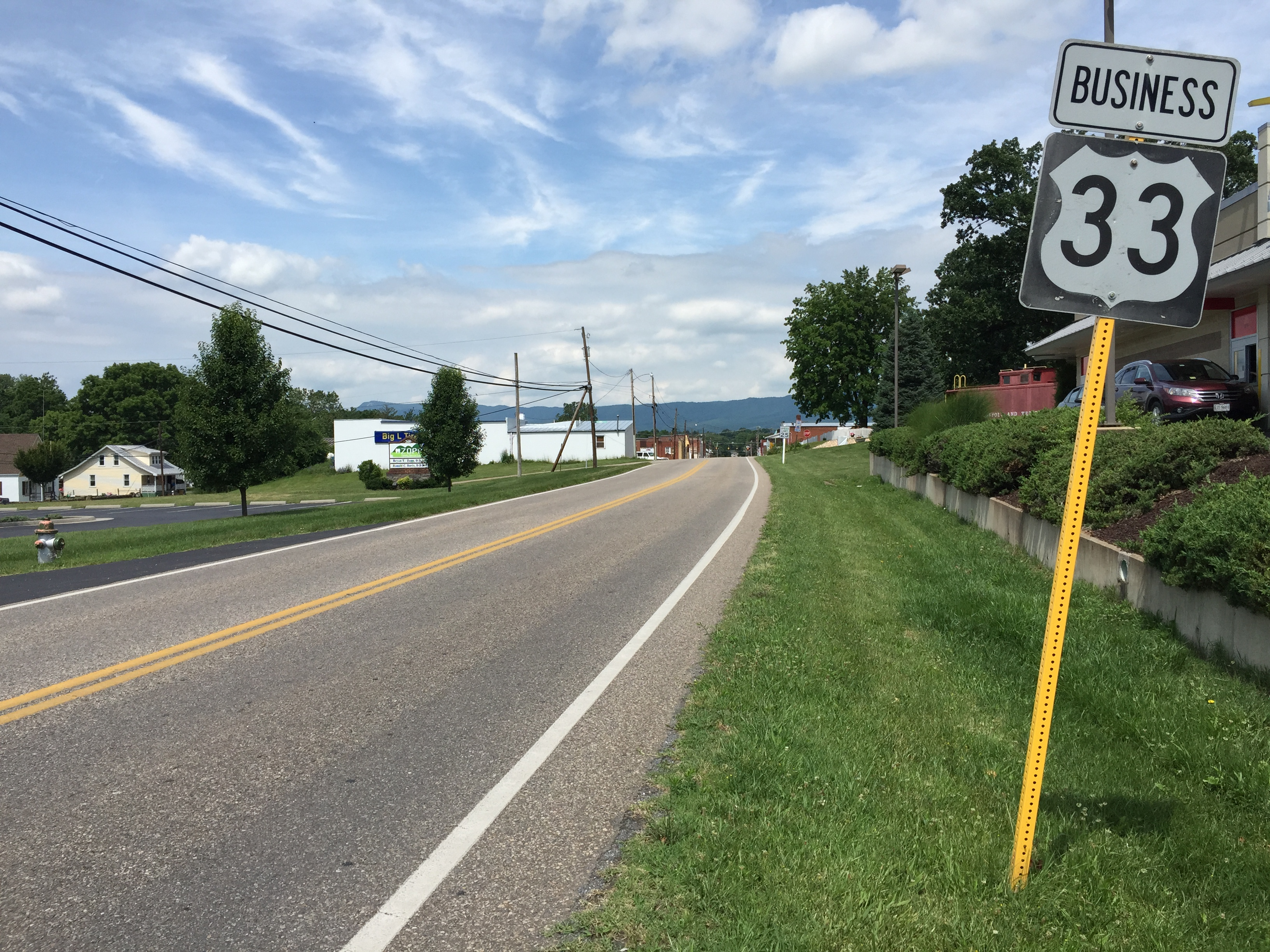 View west along U.S. Route 33 Business (Old Spotswood Trail) near Elk Run in Elkton, Rockingham County, Virginia